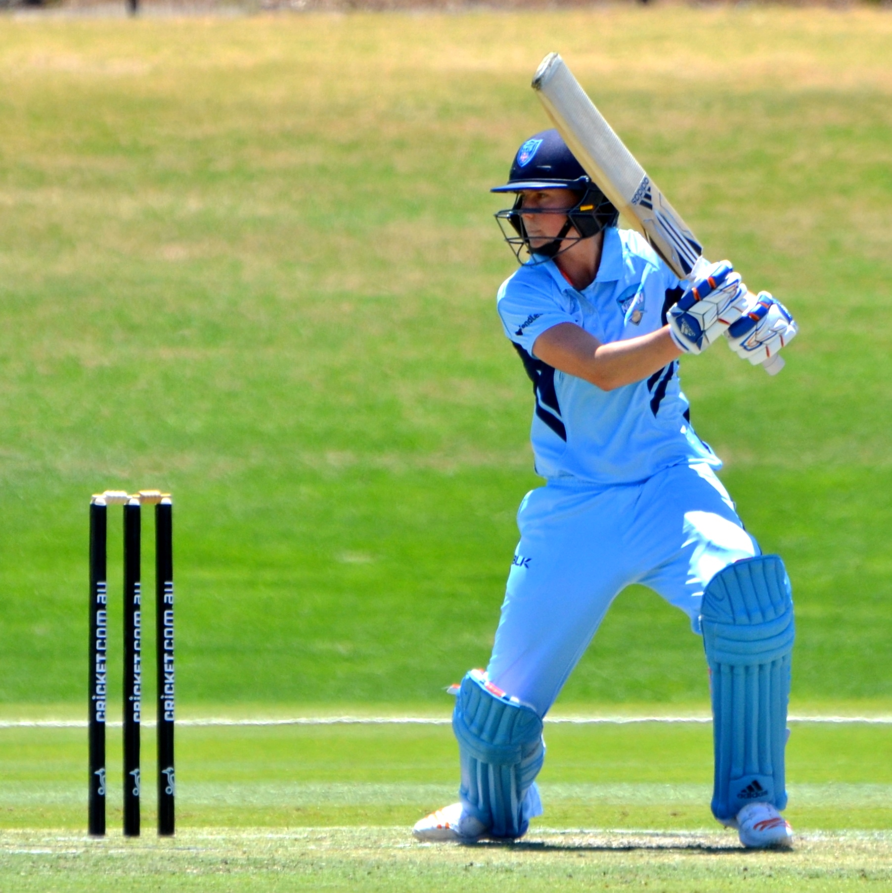 New South Wales Breakers all-rounder Ellyse Perry on her way to a total of 127 not out against the ACT Meteors, in a WNCL top of the table clash at Murdoch University Sports Oval in Perth.